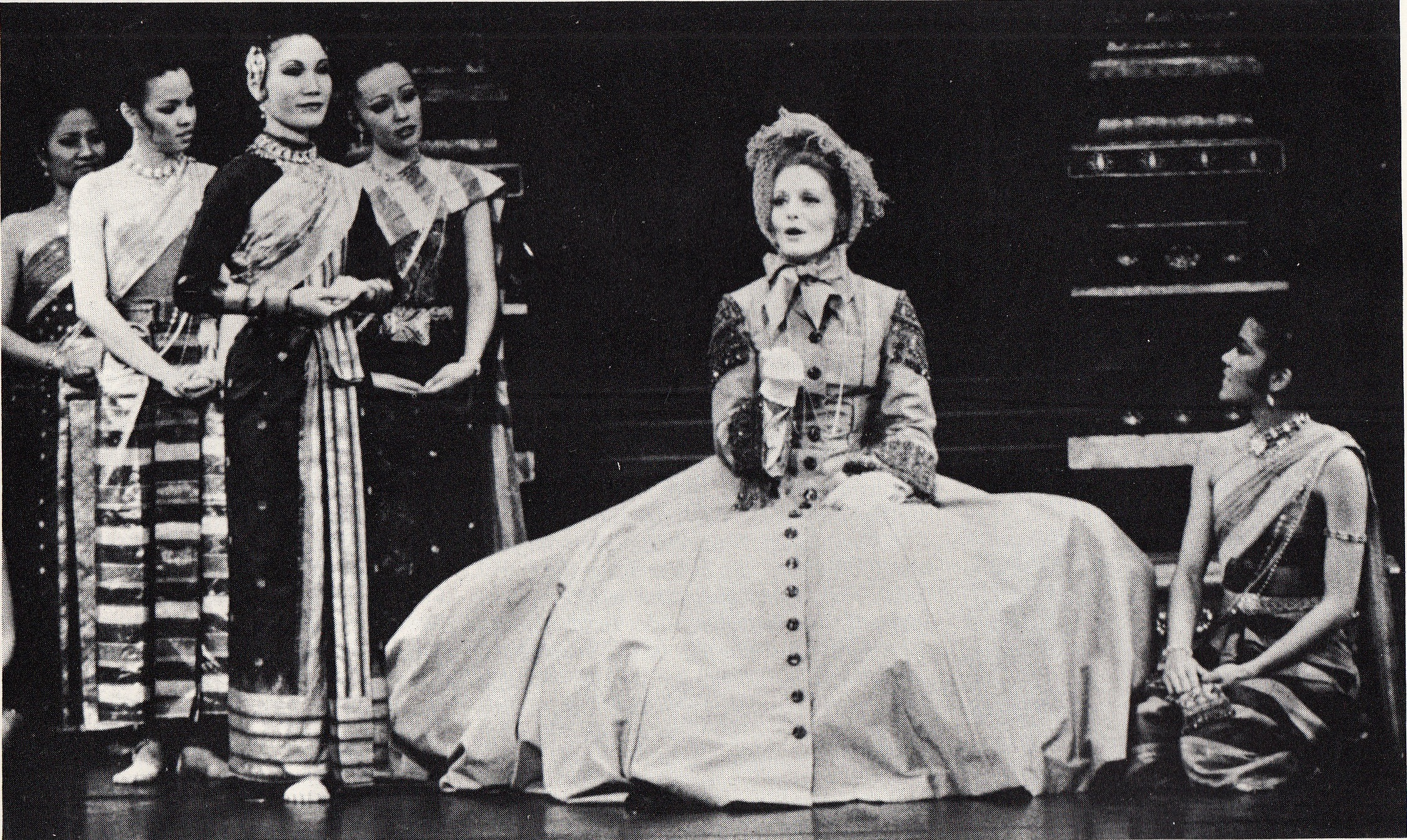 Constance Towers as Anna, from a 1977 souvenir program for the play The King and I. Lacks any copyright notice, so it is no longer under copyright.